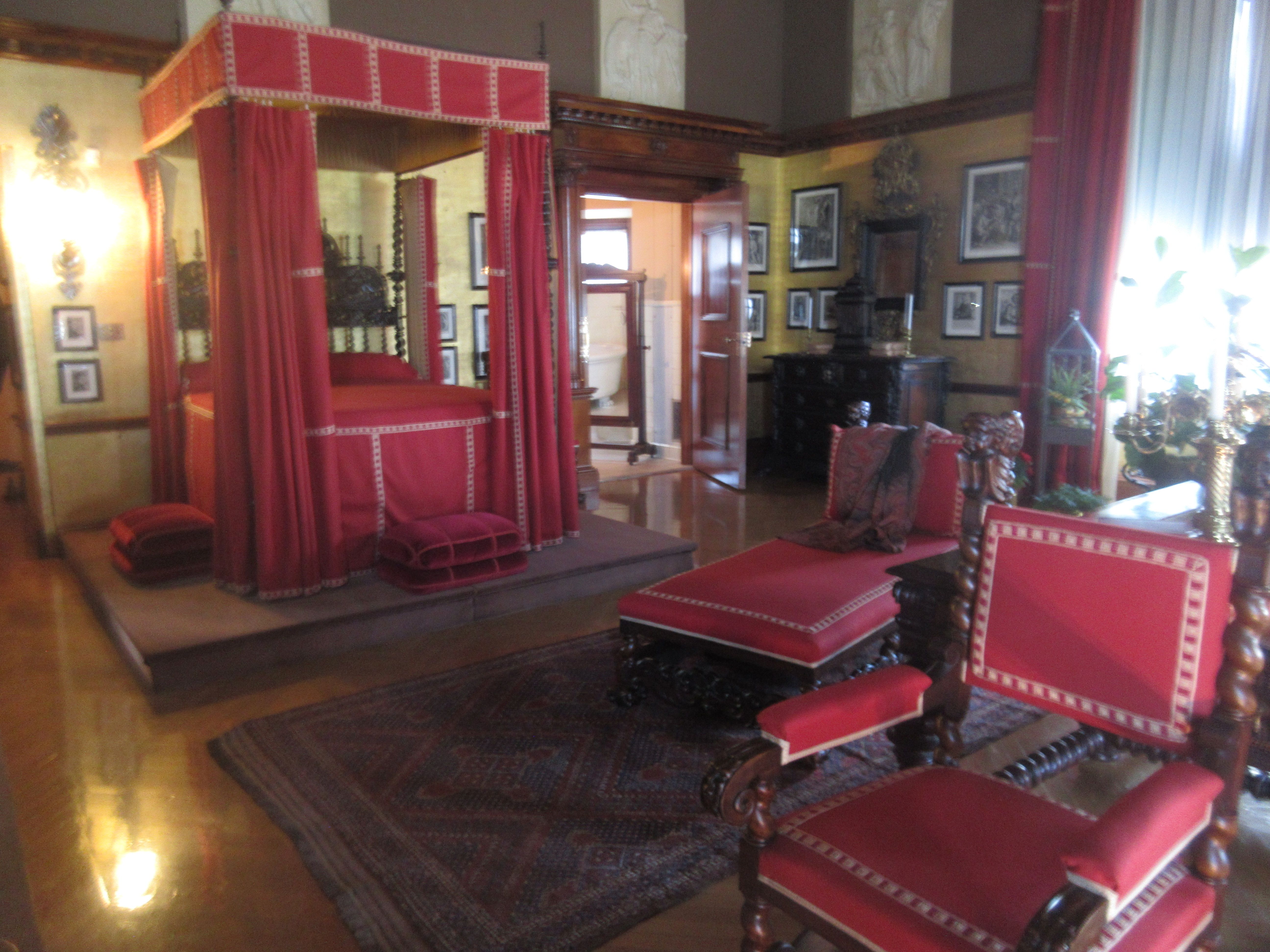 Master bedroom in the Biltmore Estate.